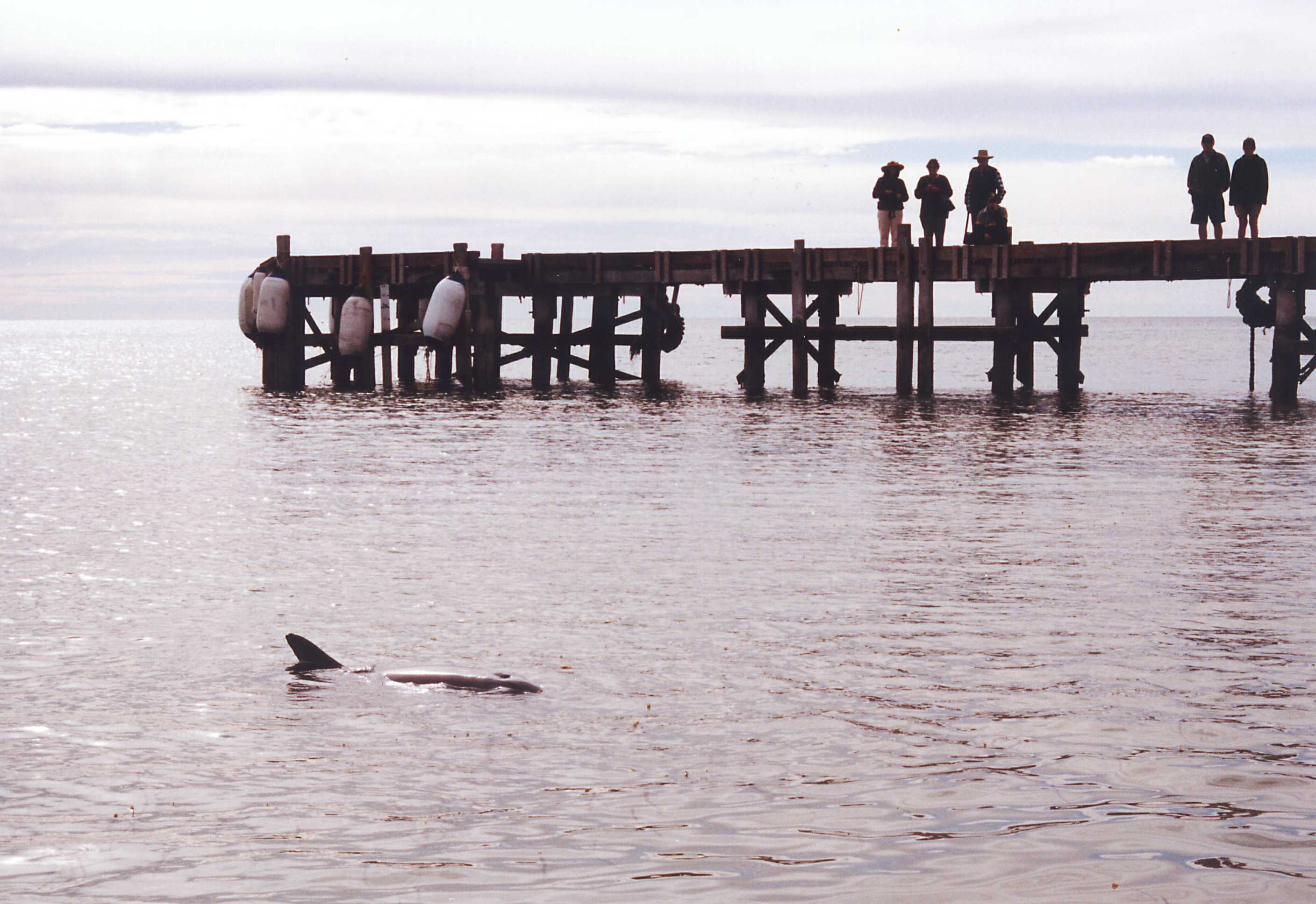 Bottlenose dolphins Tursiops aduncus coming to the shore, Monkey Mia, Western Australia